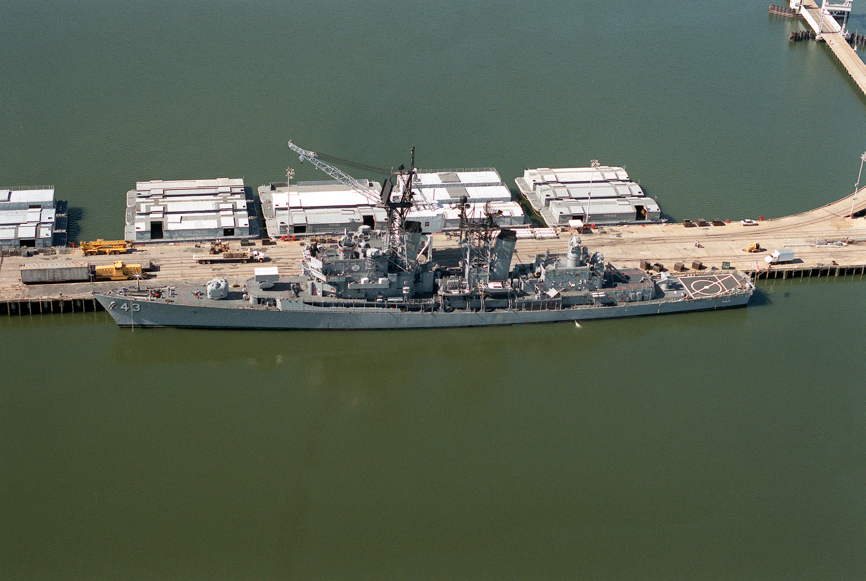 The U.S. Navy guided missile destroyer USS Dahlgren (DDG-43) tied up to a pier at the Naval Weapons Station Yorktown, Virginia (USA), in 1990.